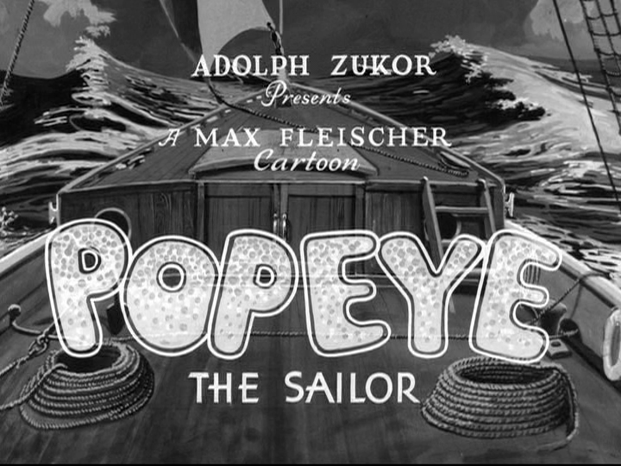 Popeye the Sailor opening title employed in the 1930s, taken from the short Little Swee' Pea. The film has fallen into the public domain, as its copyright has expired. It's available at the Internet Archive [1] and many unlicensed videotapes and DVDs.